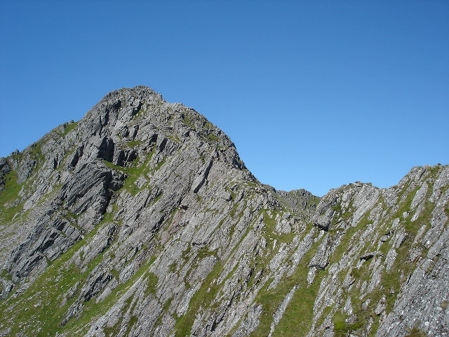 Forcan Ridge The Saddle Glen Sheil. One of best ridge walks in Scotland